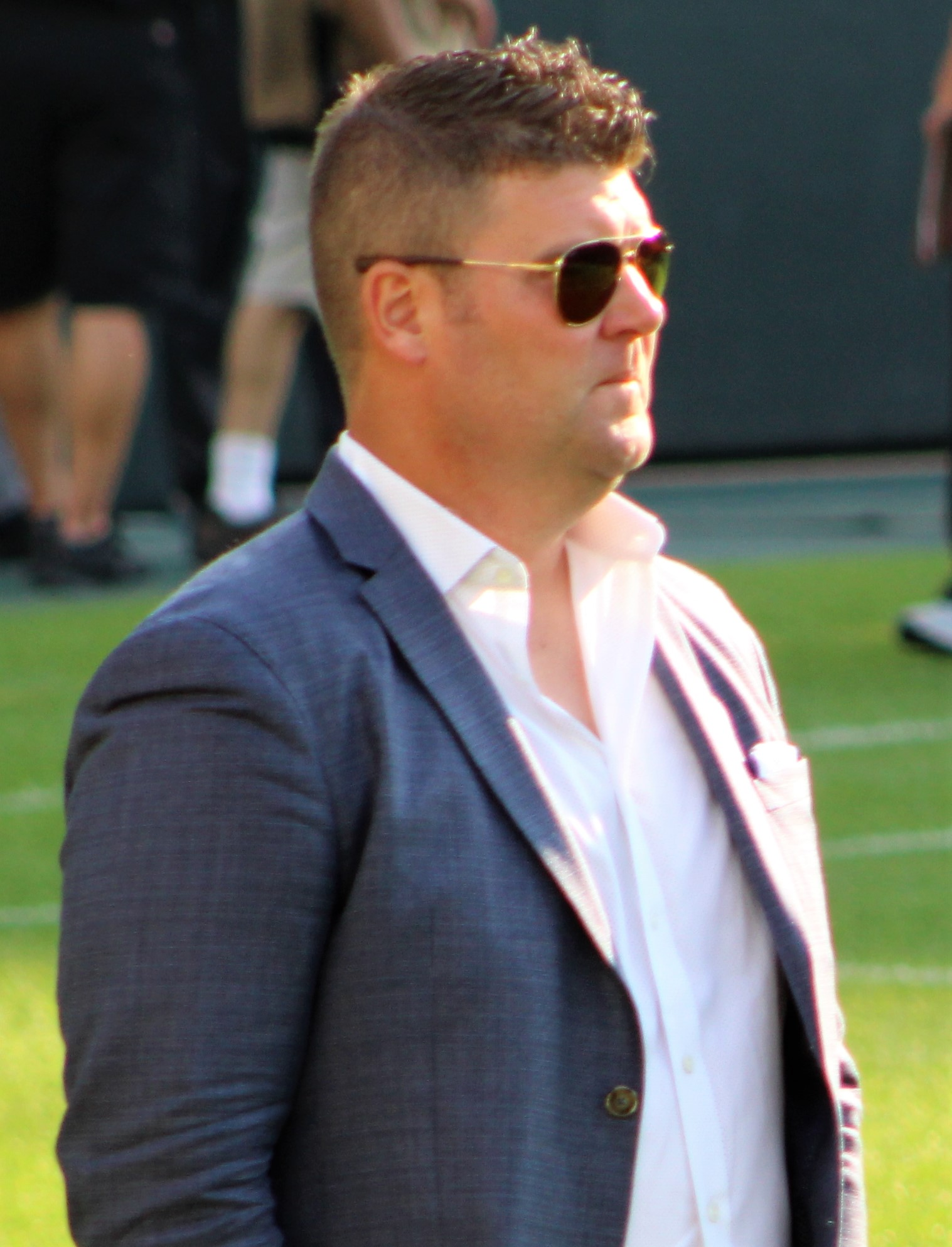 Jon Robinson visits Lambeau Field before kickoff. Tennessee Titans at Green Bay Packers (Preseason), August 9, 2018